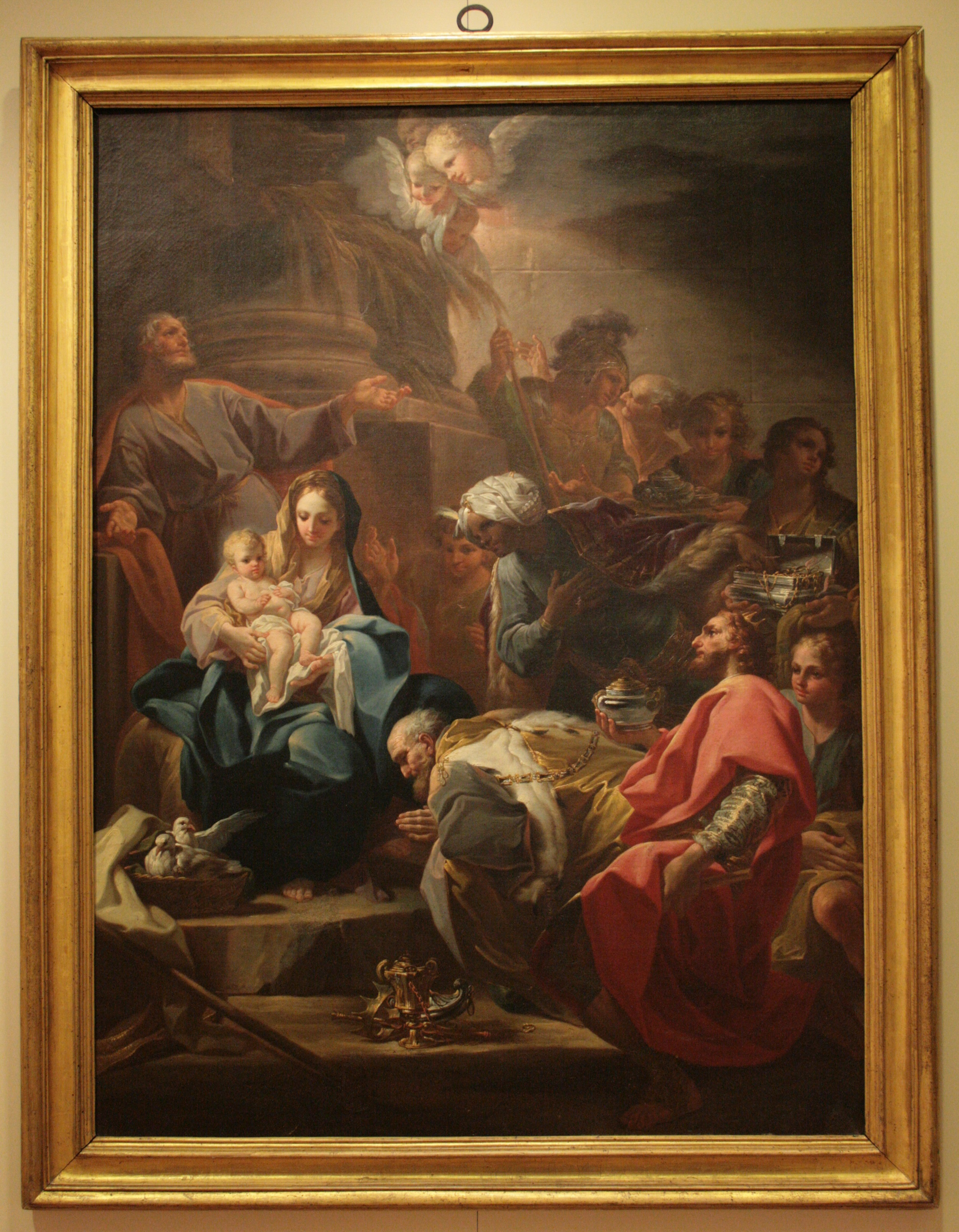 Corrado Giaquinto (1703–1766) DescriptionItalian painterDate of birth/death 18 February 1703 18 April 1766Location of birth/death Molfetta (Apulien) NaplesWork location Rom, Turin, MadridAuthority control : Q740934 VIAF: 79414196 ISNI: 0000 0001 1678 8064 ULAN: 500021302 LCCN: n85265498 WGA: GIAQUINTO, Corrado WorldCat creator QS:P170,Q740934